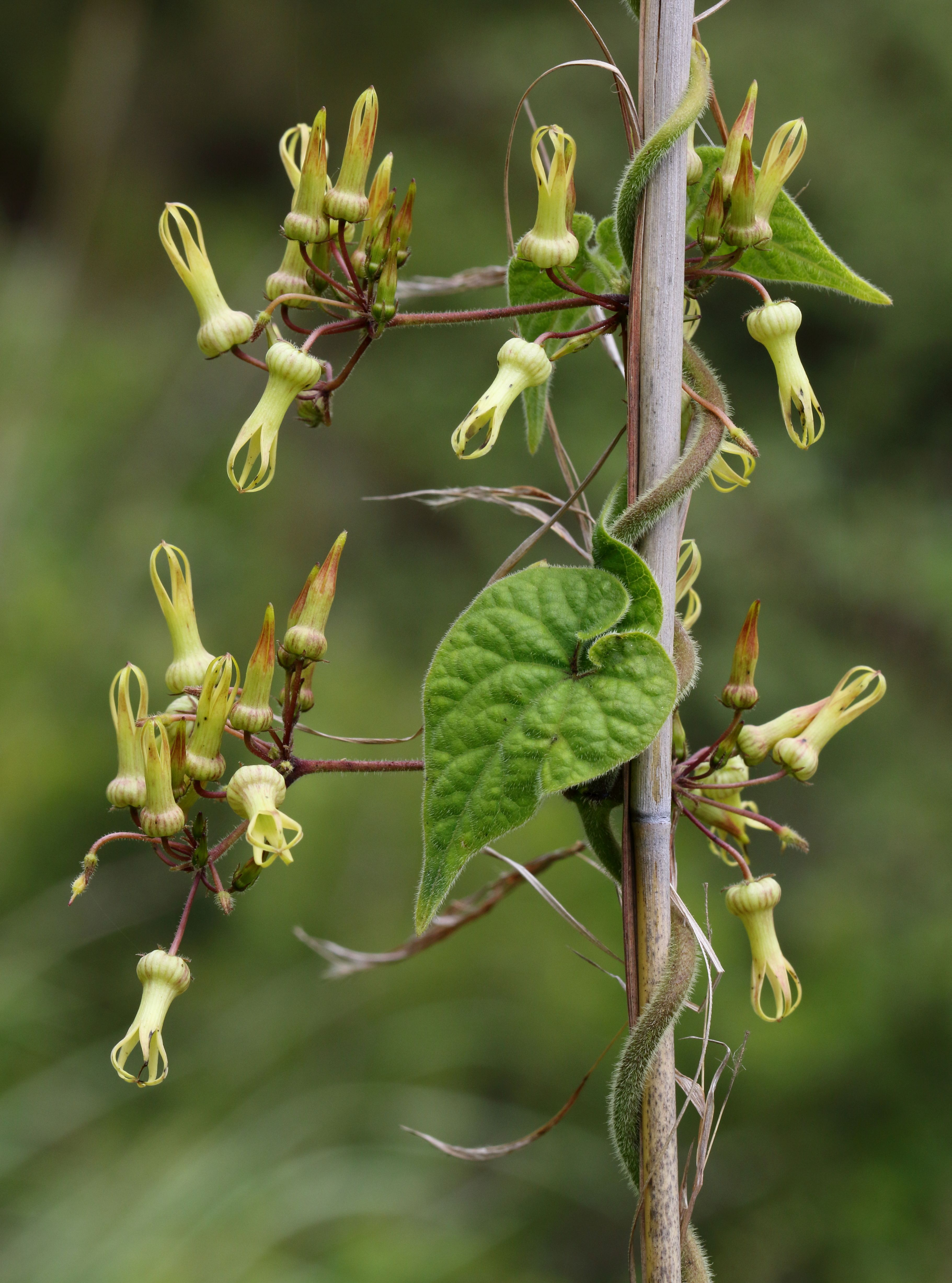 Riocreuxia torulosa; Growing in the wild in Giants Castle Game Reserve, KwaZulu-Natal, South Africa.